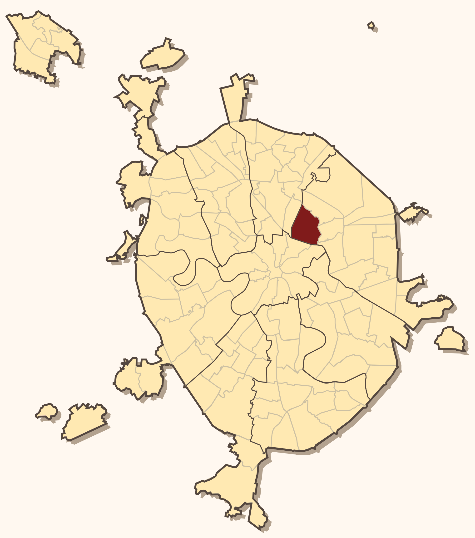 Moscow districts map